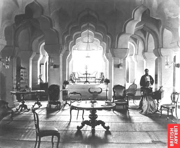 Inner view of Palace of Queen Mangammal.